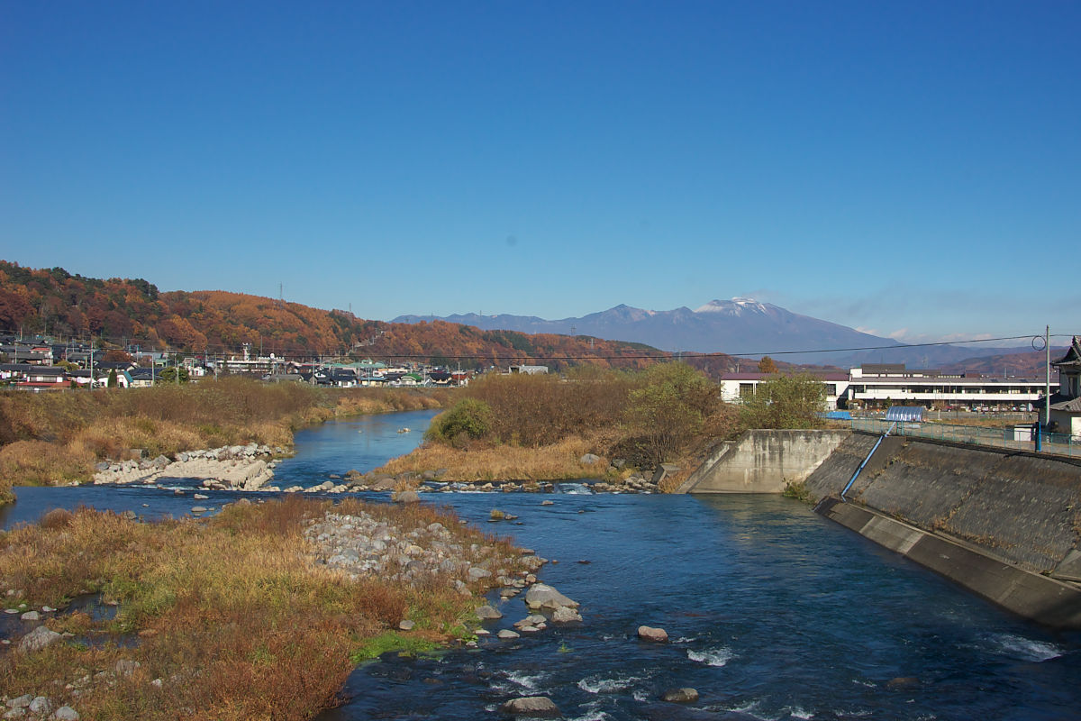 River Chikuma and Mt. Asama from Sakuho, Nagano.